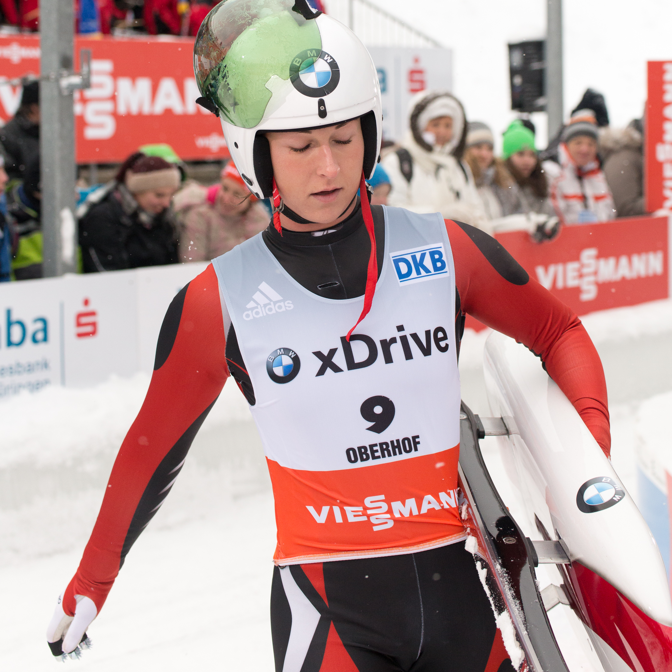 Luge world cup Oberhof 2016-01-17